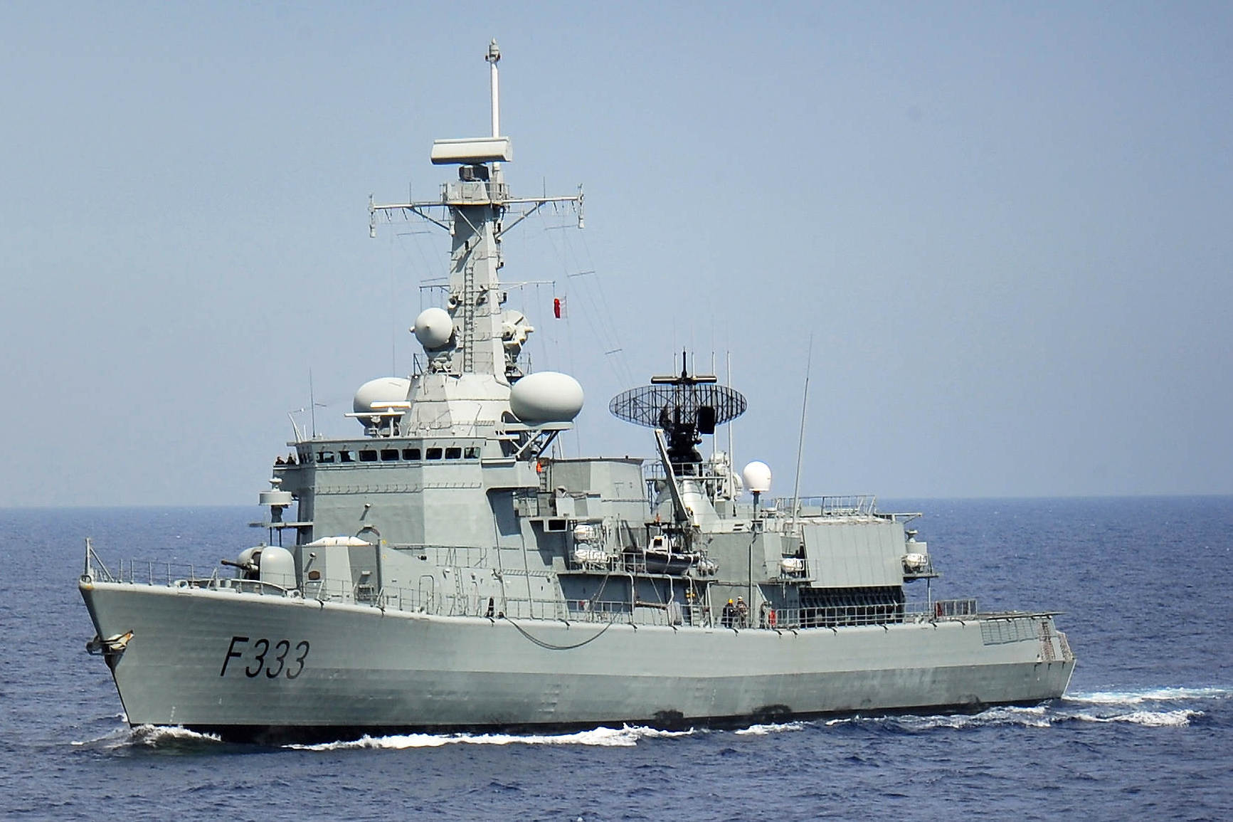 A Portuguese navy visit, board, search and seizure team in a rigid-hull inflatable boat leaves the Portuguese navy frigate NRP Bartolomeu Dias to conduct an inspection of the Military Sealift Command container and roll-on/roll-off ship USNS LCPL Roy M. Wheat during exercise Phoenix Express 2010. Phoenix Express is a two-week exercise designed to strengthen maritime partnership and enhance stability in the region through increased interoperability and cooperation among partners from Africa, Europe and the U.S.